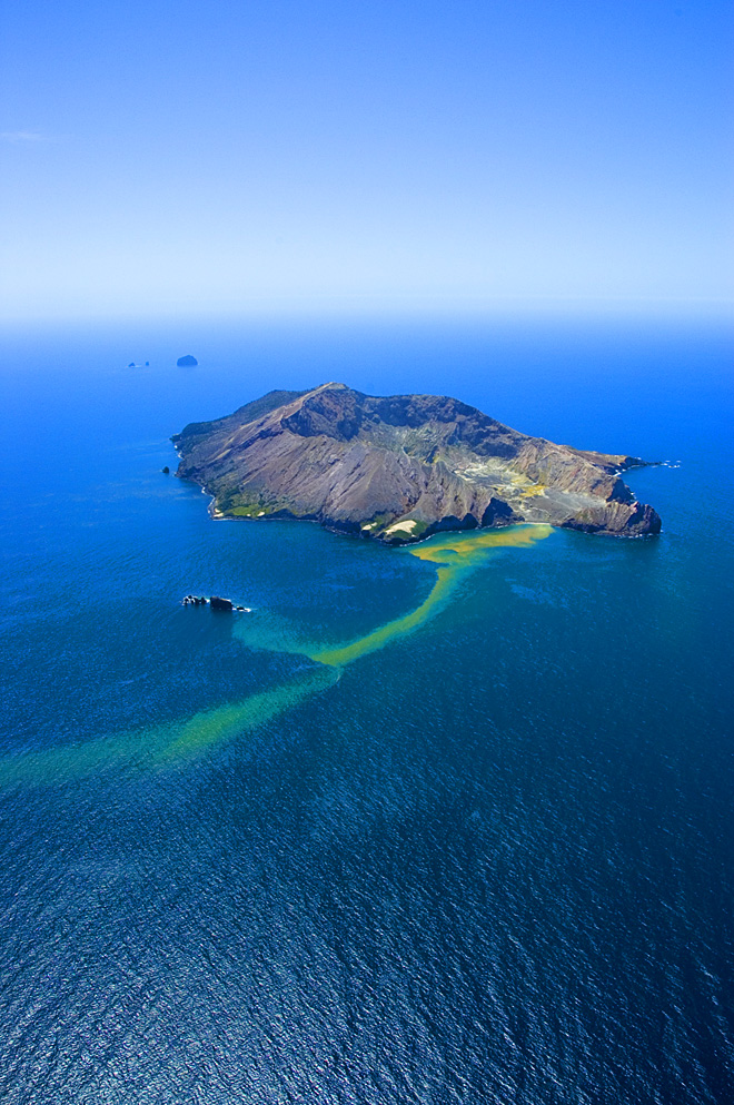 Aerial photograph of White Island (Whakaari) in the Bay of Plenty, The North Island, New Zealand